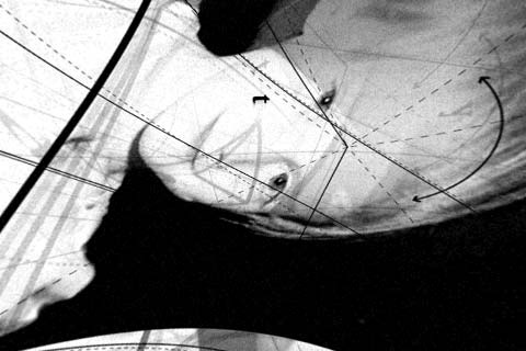 Illustration for "Story of your Life", by Hidenori Watanave for Hayakawa's S-F Magazine.